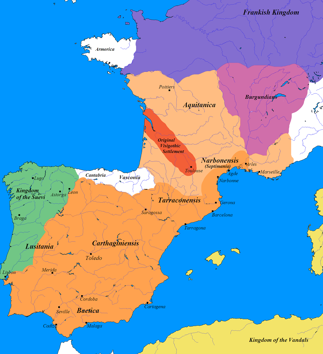 Map of the Visigothic kingdom. I created this work entirely by myself. Sources: Cambridge medieval history, Euratlas.